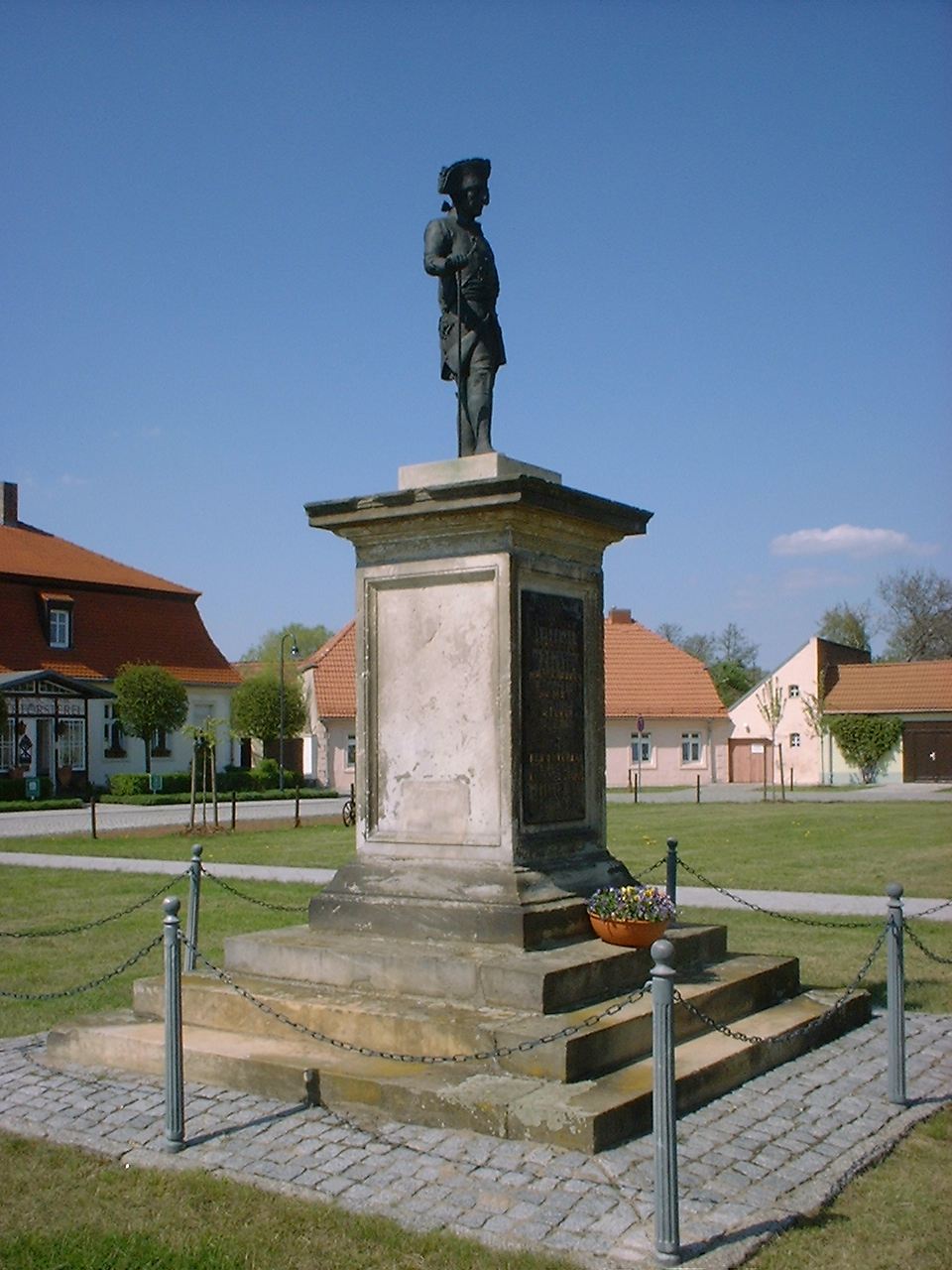 Statue of Frederick II in Brandenburg, Germany